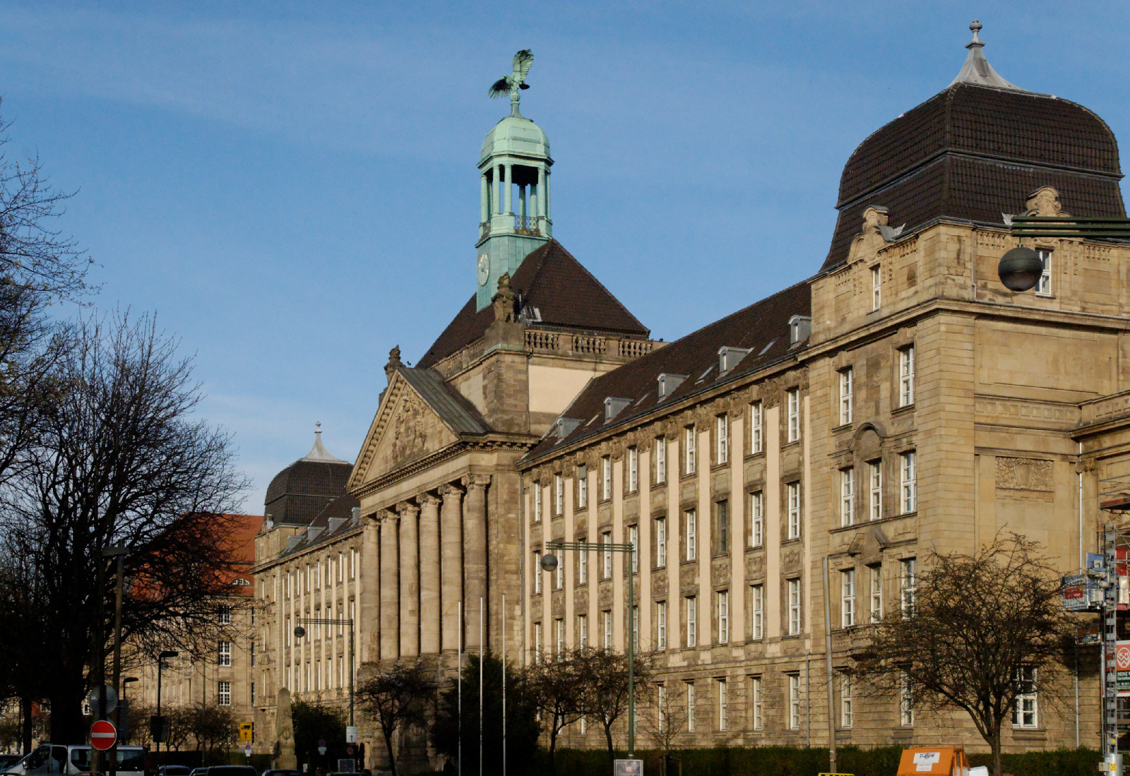 District government in Düsseldorf-Pempelfort, Germany